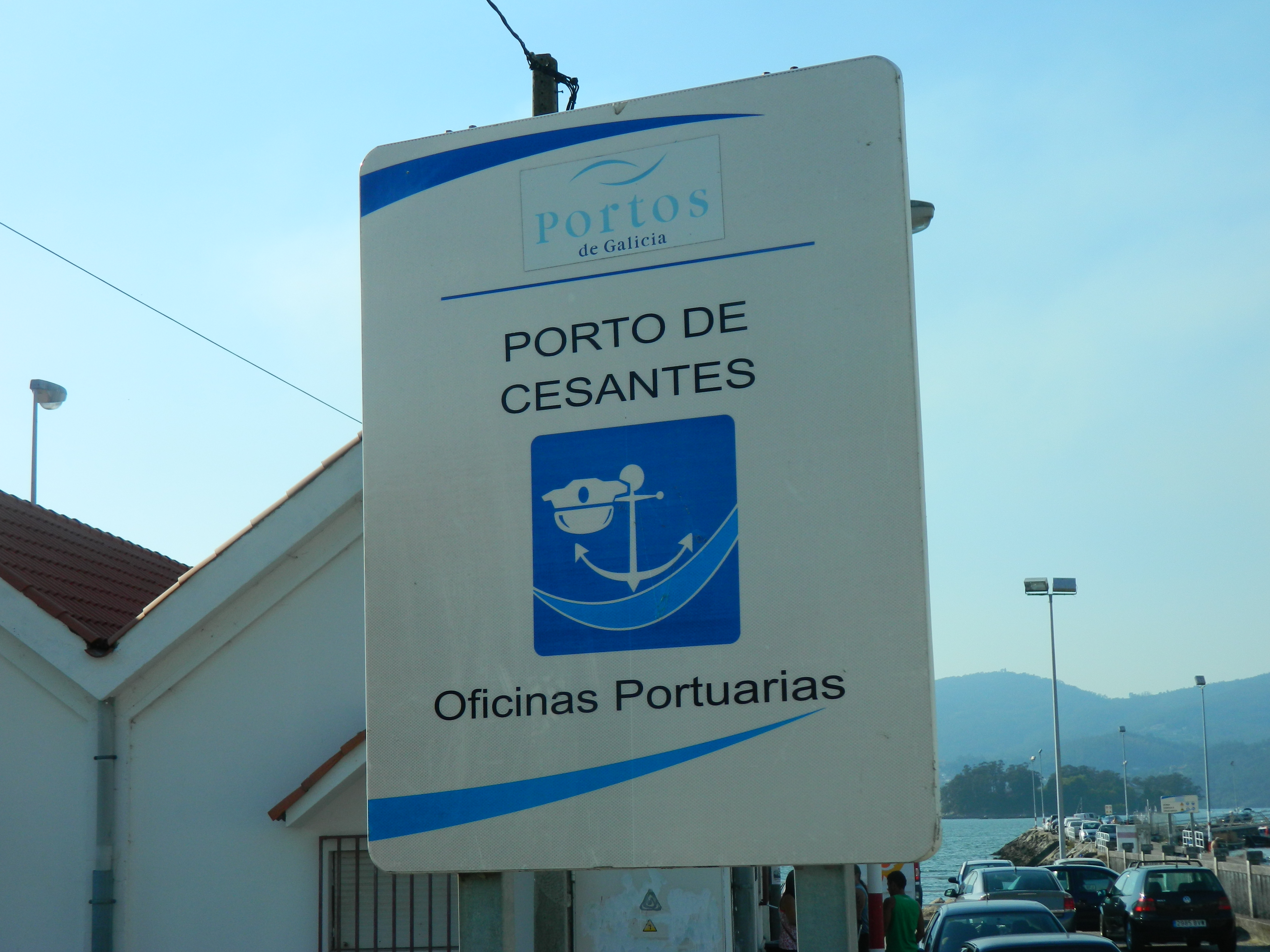 Advertisment in the entrance of Port of Cesantes, in Redondela.